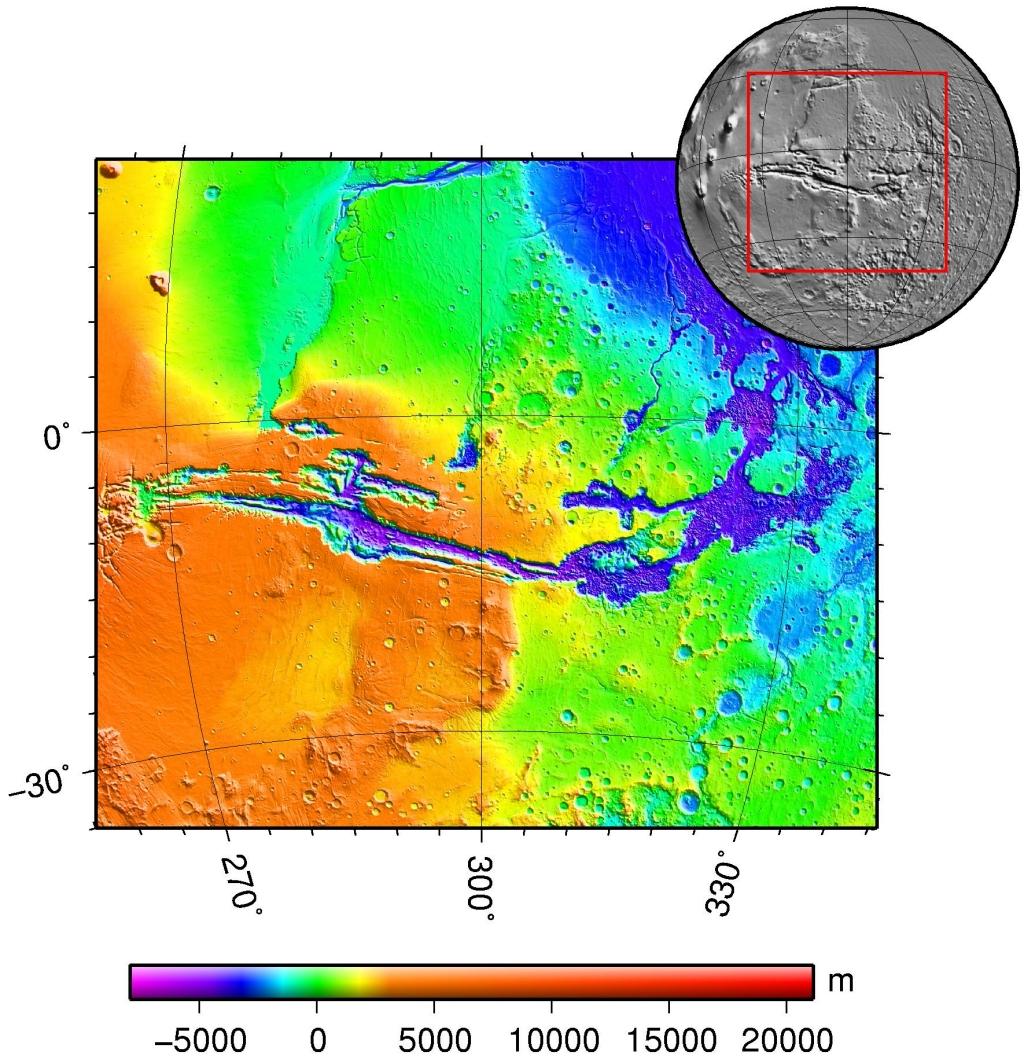 Valles Marineris (Mars) topography